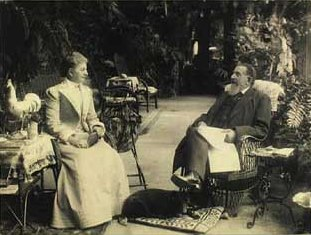 Ludvig Jens Tønnes Grøn (1827-1910), Danish merchant and industrialist, with his wife, Ada Grøn, born Curtois (1830-1917). Photographed by Kyst Atelieret at the country house "Rolighed" near Vedbæk 14 August, 1902.